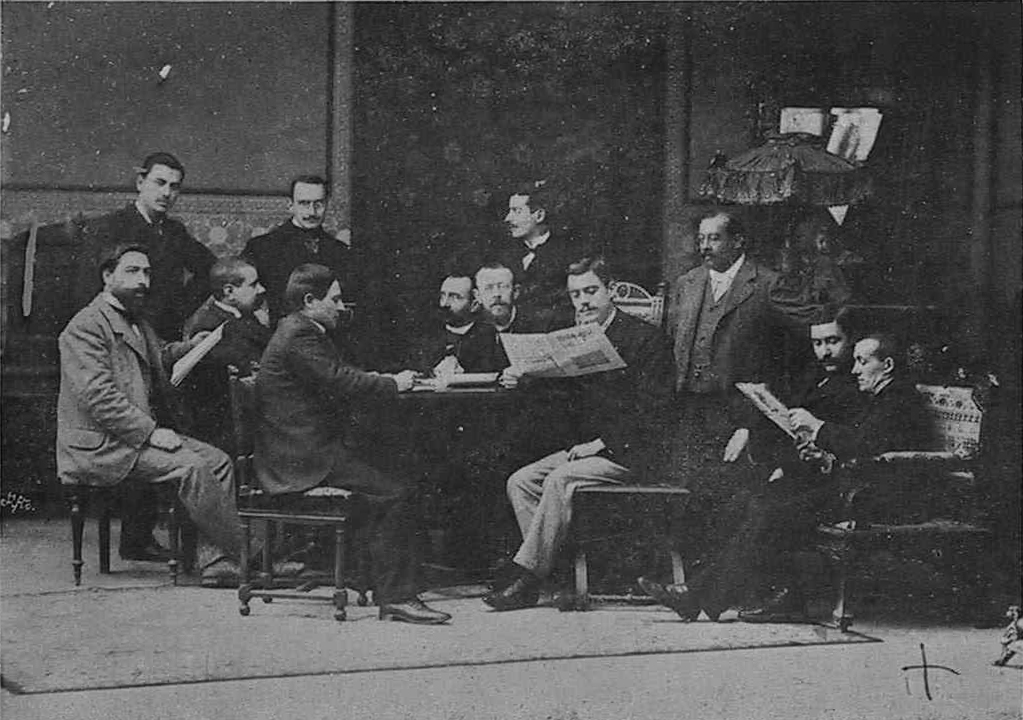 Staff writers of sports magazine «Los Deportes» in Barcelona, in 1898.